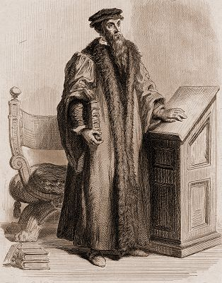 John Calvin